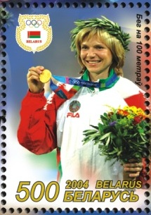 Belarus stamps no. 579, commemorate 2004 Summer Olympics champion in the 100m Yulia Nestsiarenka.